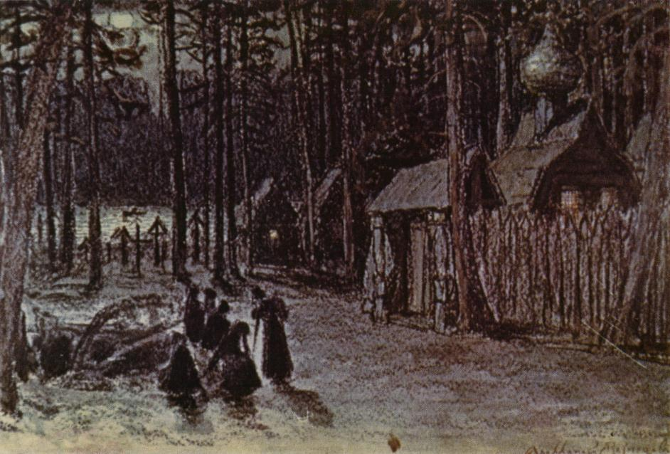 Scene design for Khovanshchina, Act 5, by Vasnetsov, 1897